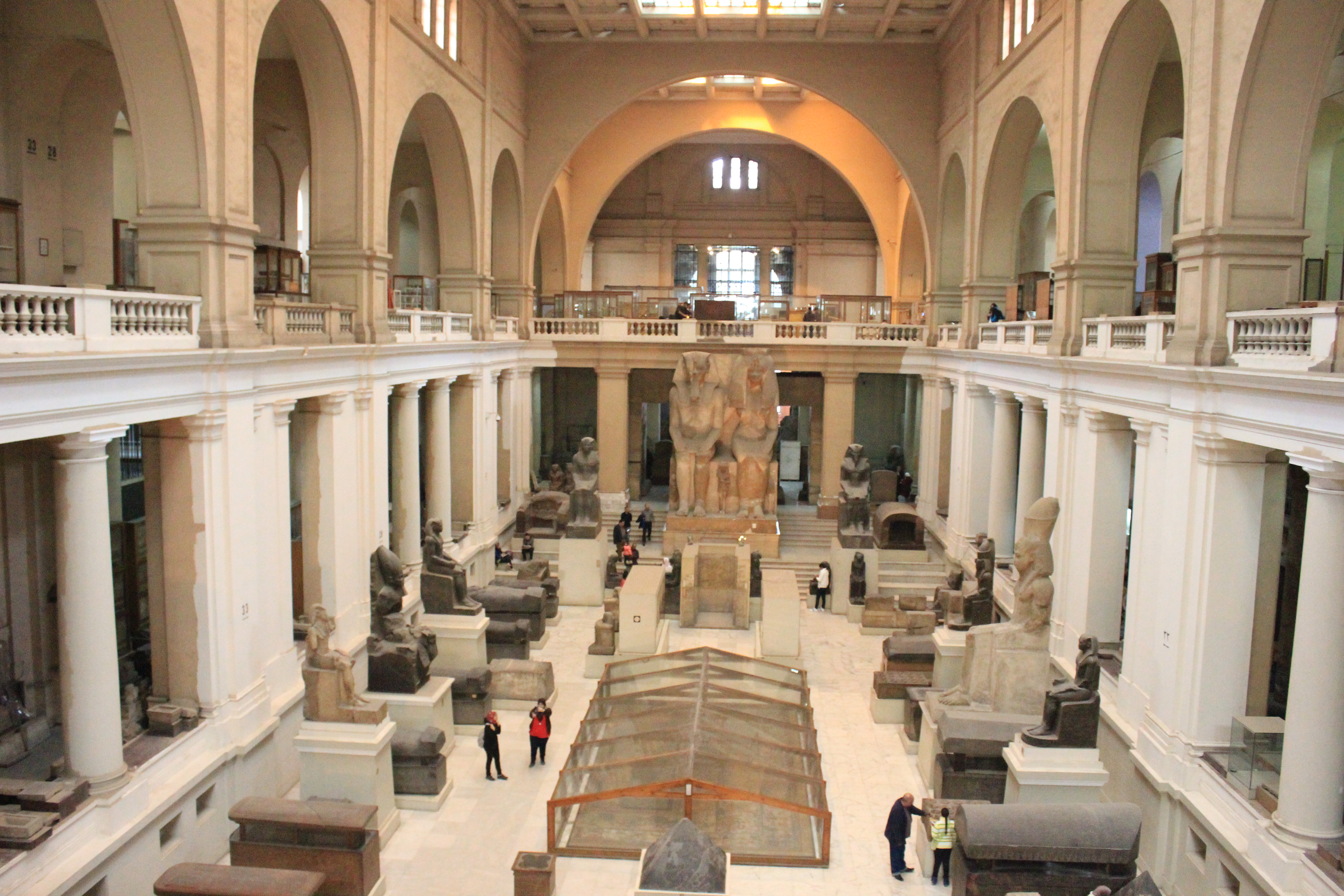 Egyptian Museum in Cairo, Egypt.)